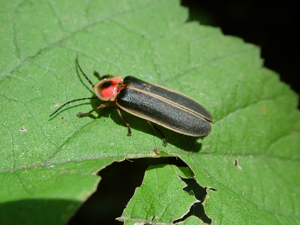 Firefly, Patapsco Valley State Park, pathway, Catonsville, Baltimore, Maryland, USA